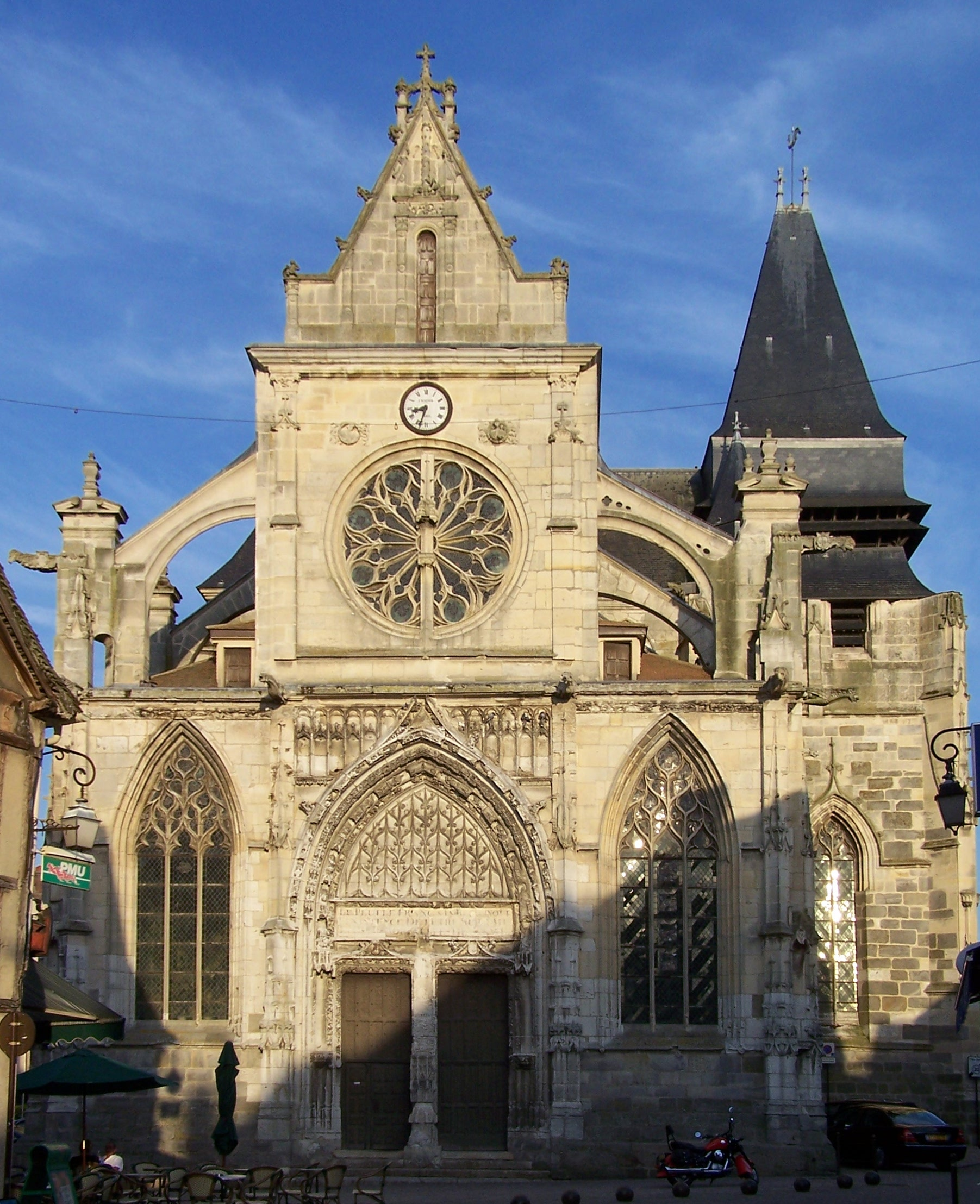 Church of Houdan (Yvelines, France)